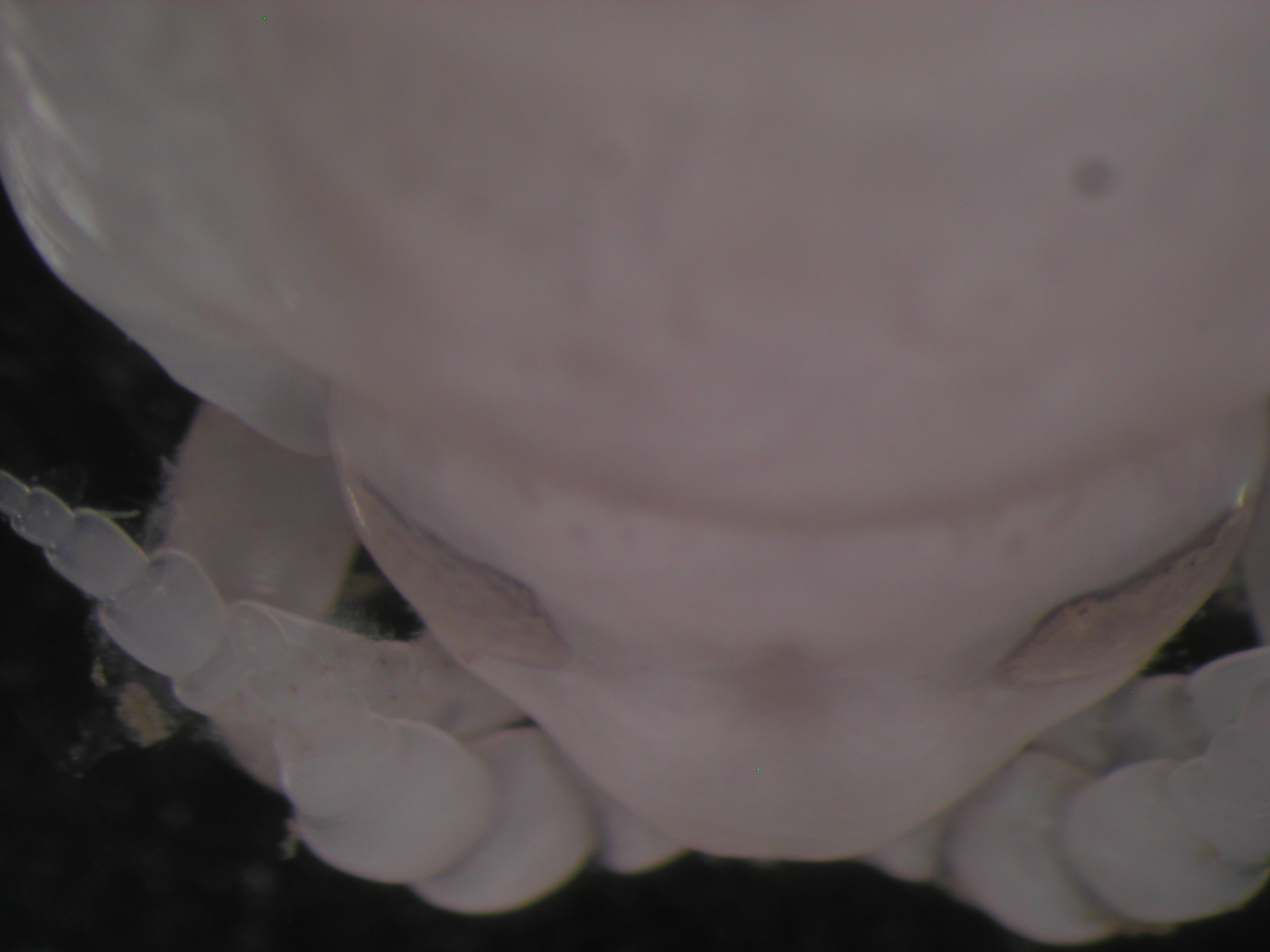 Dorsal view of the head of the adult female of Ceratothoa oestroides (credit Ivona Mladineo)